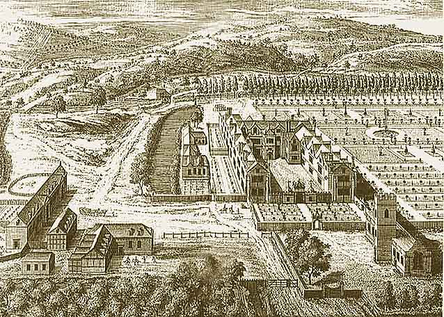 Detail of copper engraving, 'Toddington' from Britannia Illustrata, or Views of Several of the Queens Palaces also of the Principal Seats of the Nobility and Gentry of Great Britain (London, 1709). Drawn by Leonard Knyff and engraved by Jan (or Johannes) Kip (1653-1722)